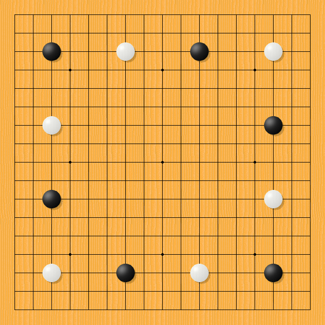 Starting position in Tibetan Go